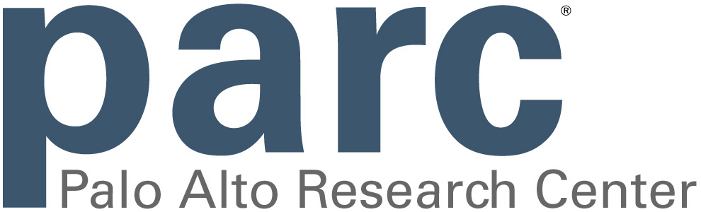 Palo Alto Research Center logo.